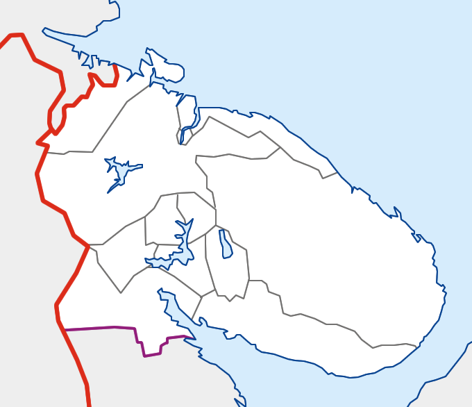 Map of Murmansk Oblast